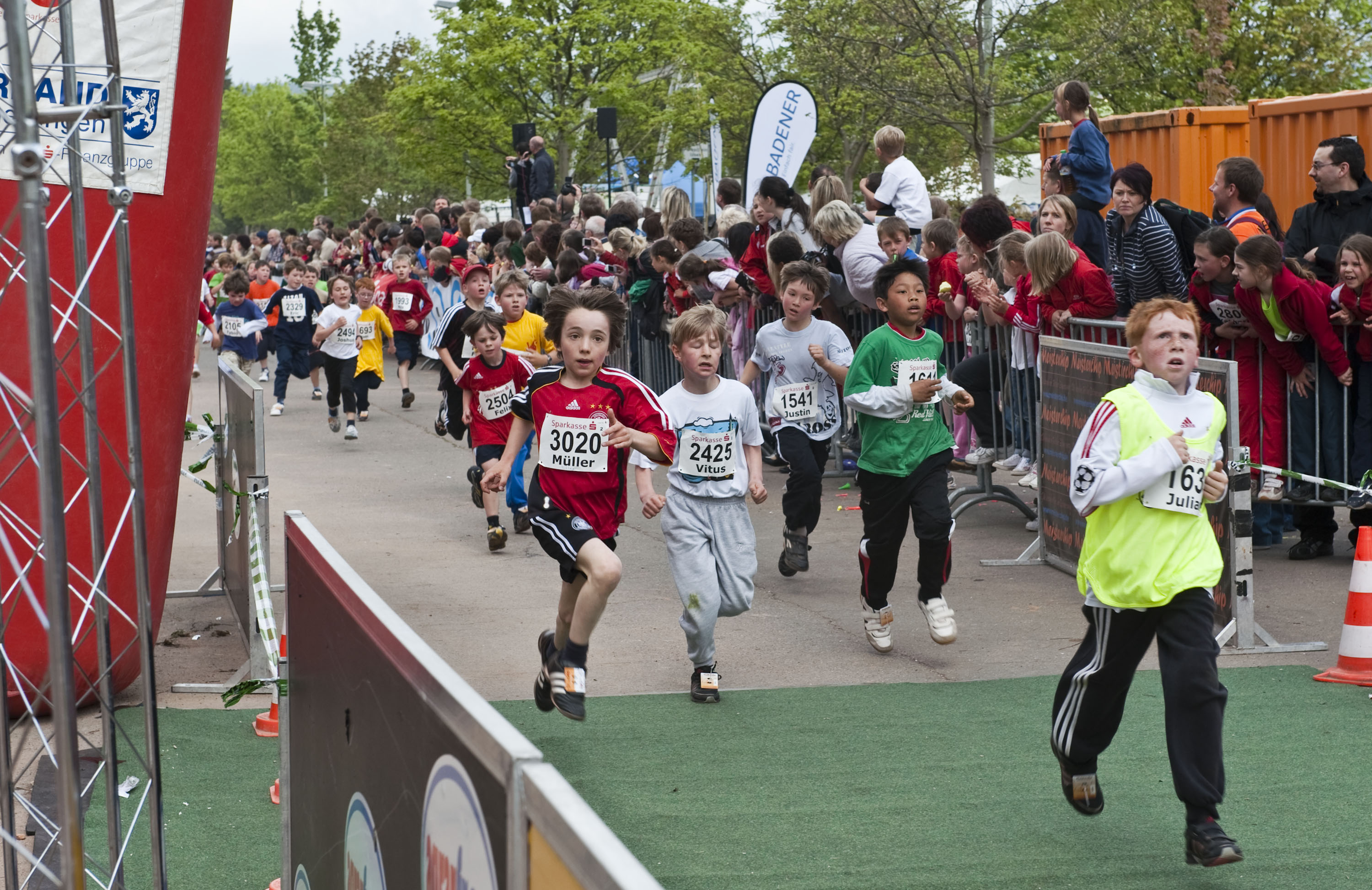 Saarländische Schullaufmeisterschaften